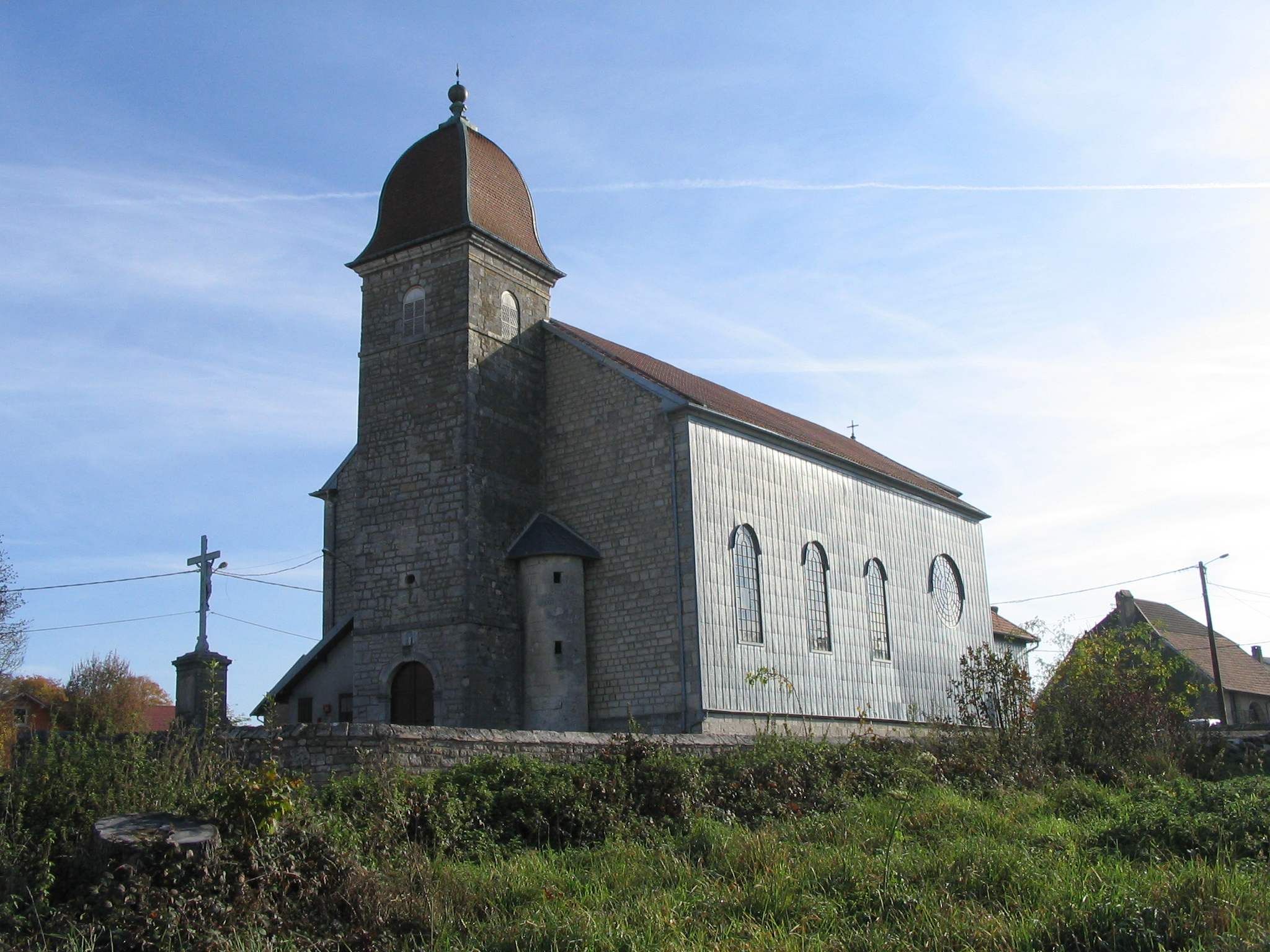 Foucherans' church (Doubs/France)